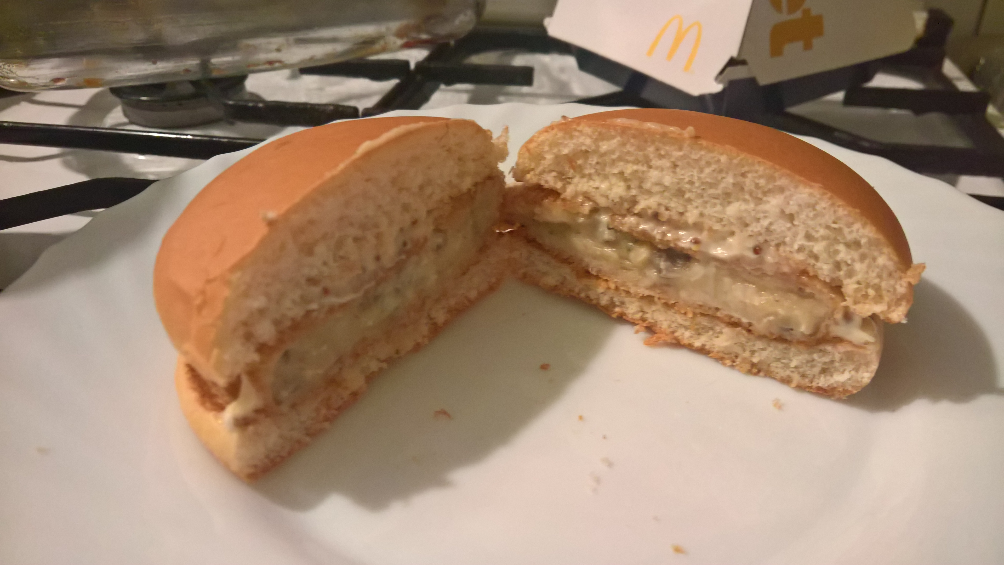 A McKroket from McDonald's Winschoten.